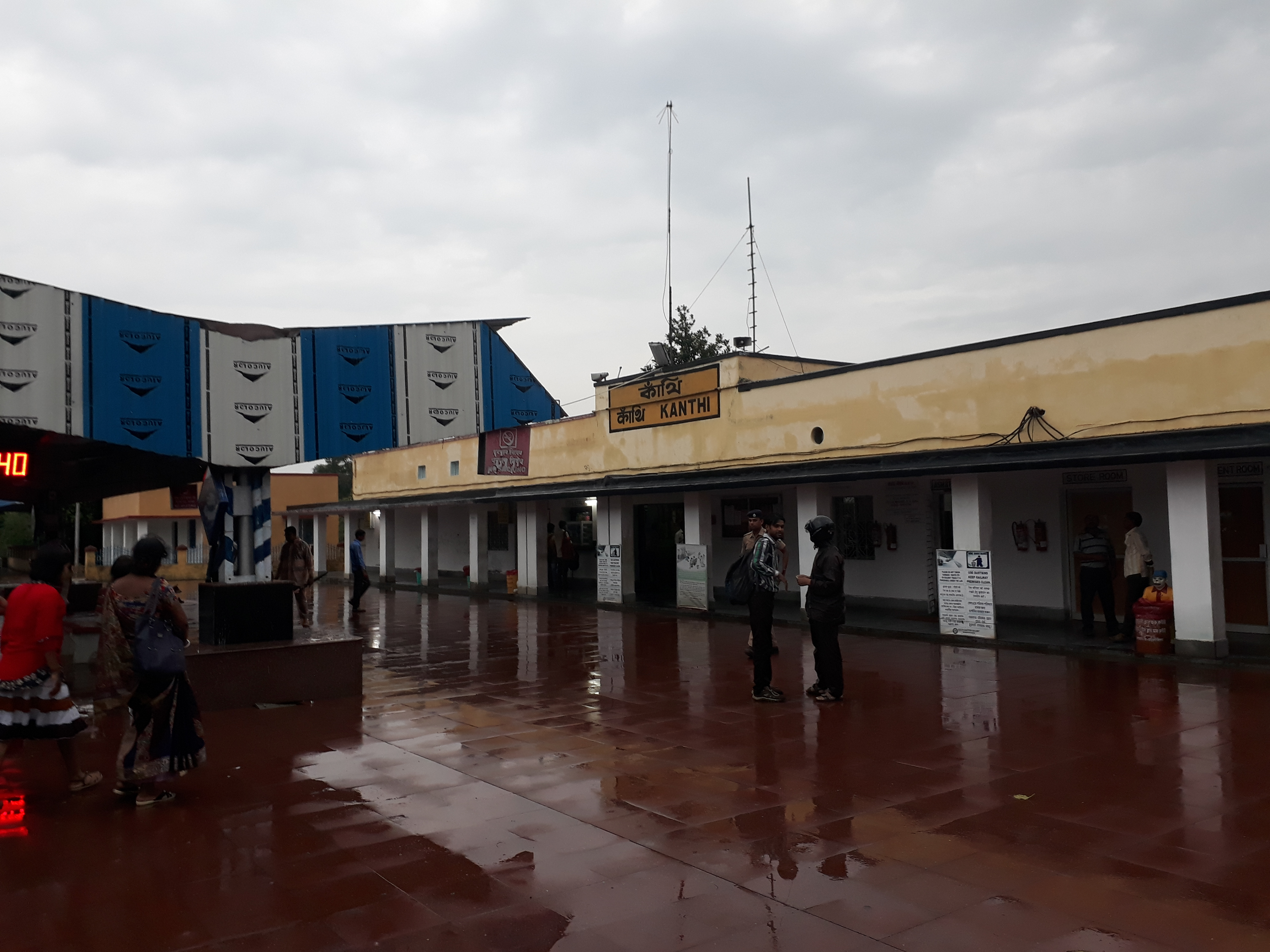 Contai Railway Station, Kanthi